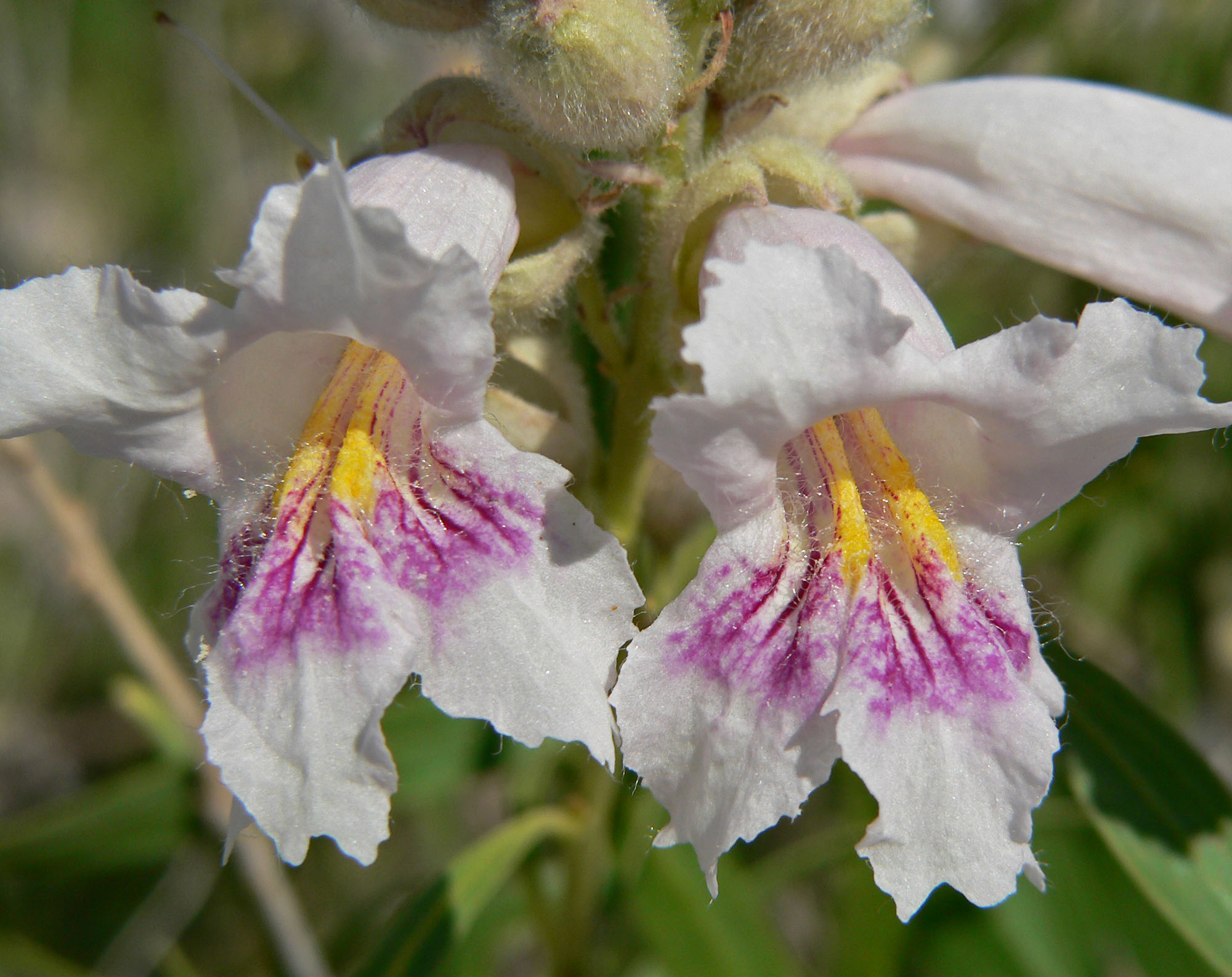 Chilopsis linearis in Calico Basin, Spring Mountains, west of Las Vegas, Nevada